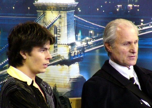 Stéphane Lambiel and Peter Grütter at the 2004 European Figure Skating Championships